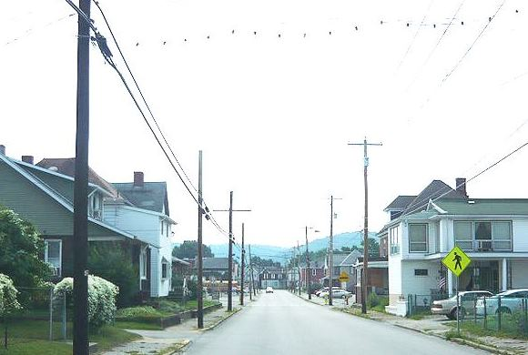 Looking southward on Pittsburgh Street, Borough of South Connellsville, Pennsylvania, from intersection with Gibson Avenue